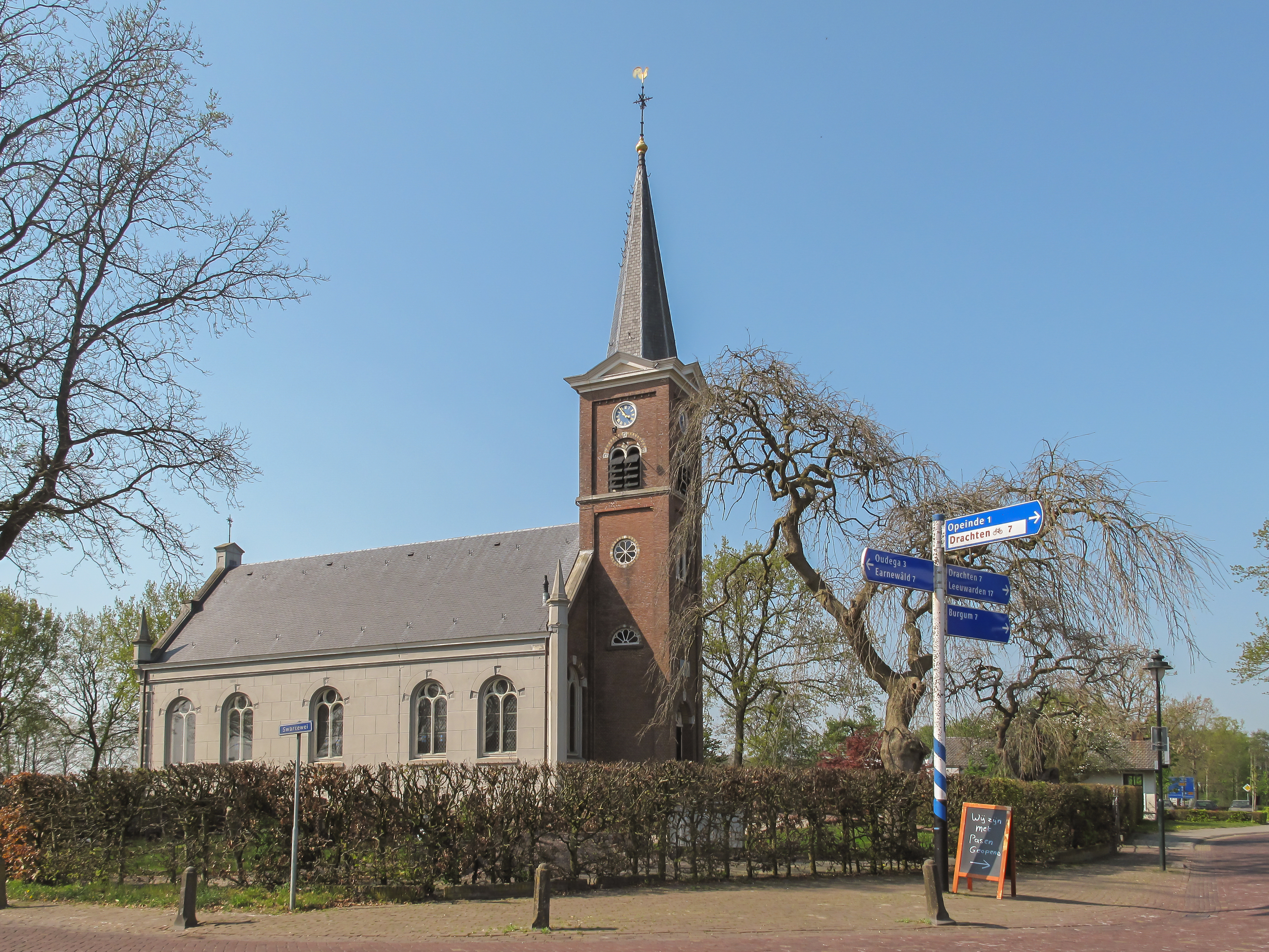 Nijega, church RM499073